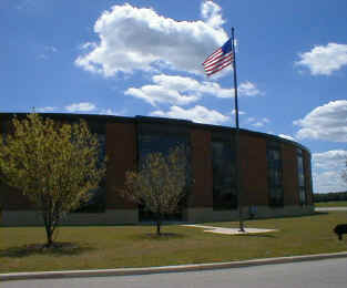 picture of Huntley High School, Huntley, Illinois